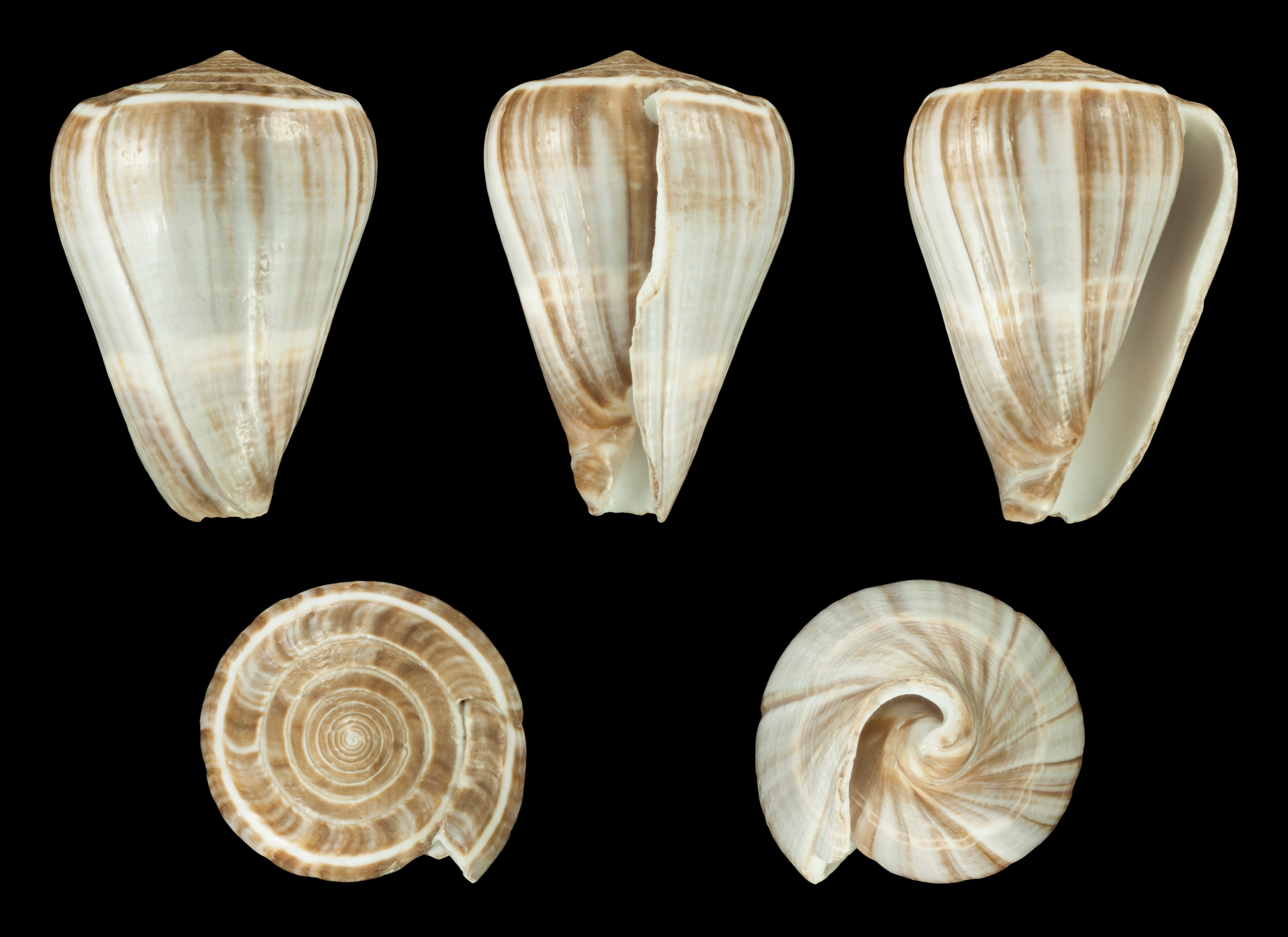 Conus buxeus loroisii Kiener, 1846; length 7.4 cm; Originating from the Philippines; Shell of own collection, therefore not geocoded.